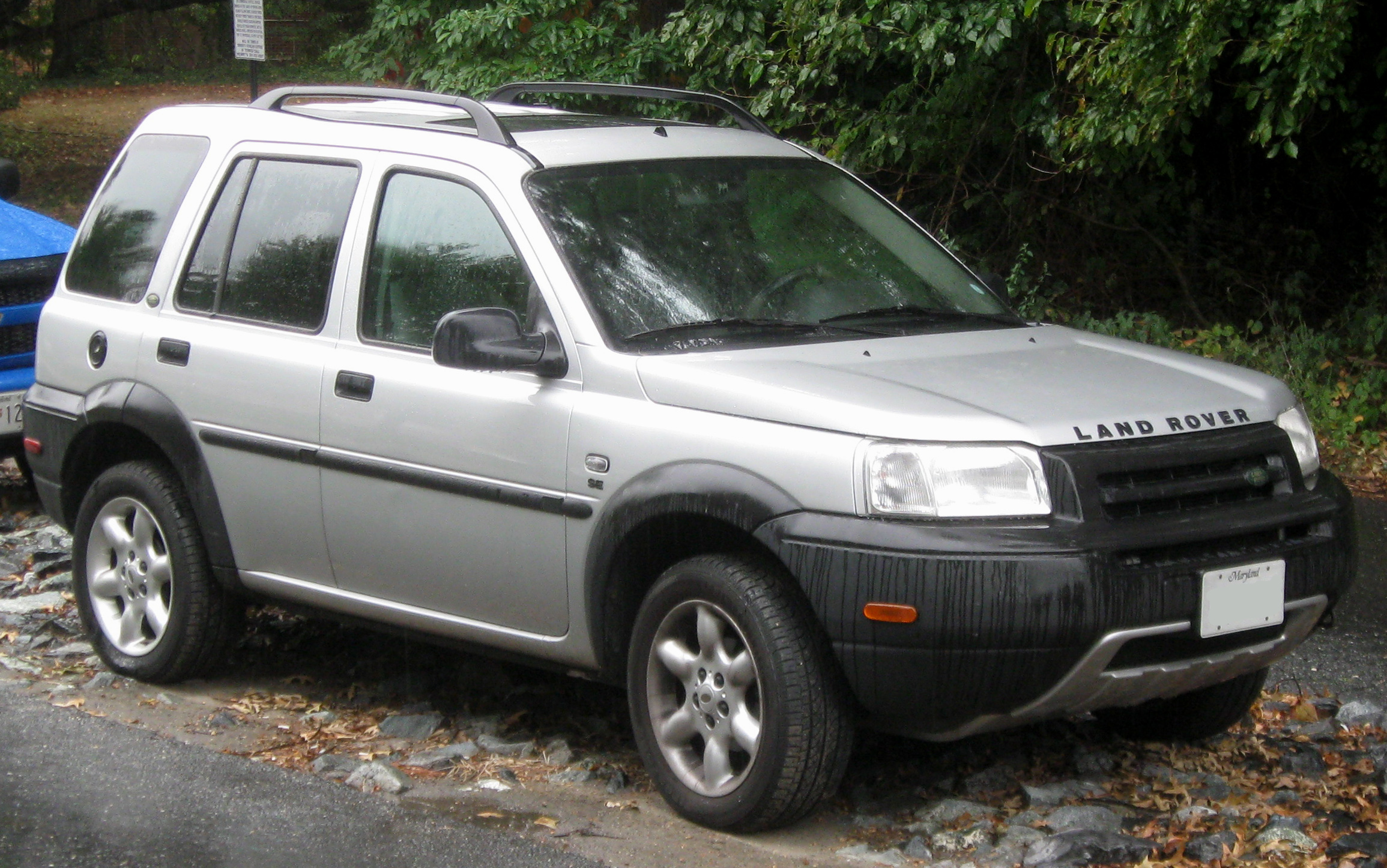 2002-2003 Land Rover Freelander SE photographed in College Park, Maryland, USA.